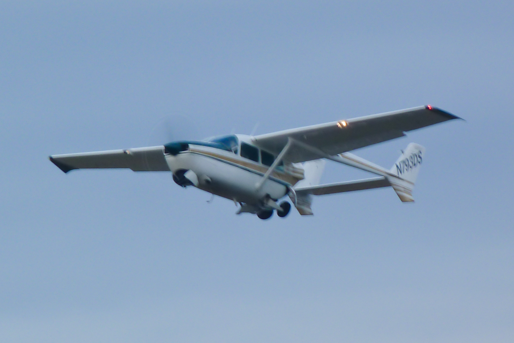 Cessna Super Skymaster 337F (registry number N793DS) takes off from Bellingham International Airport